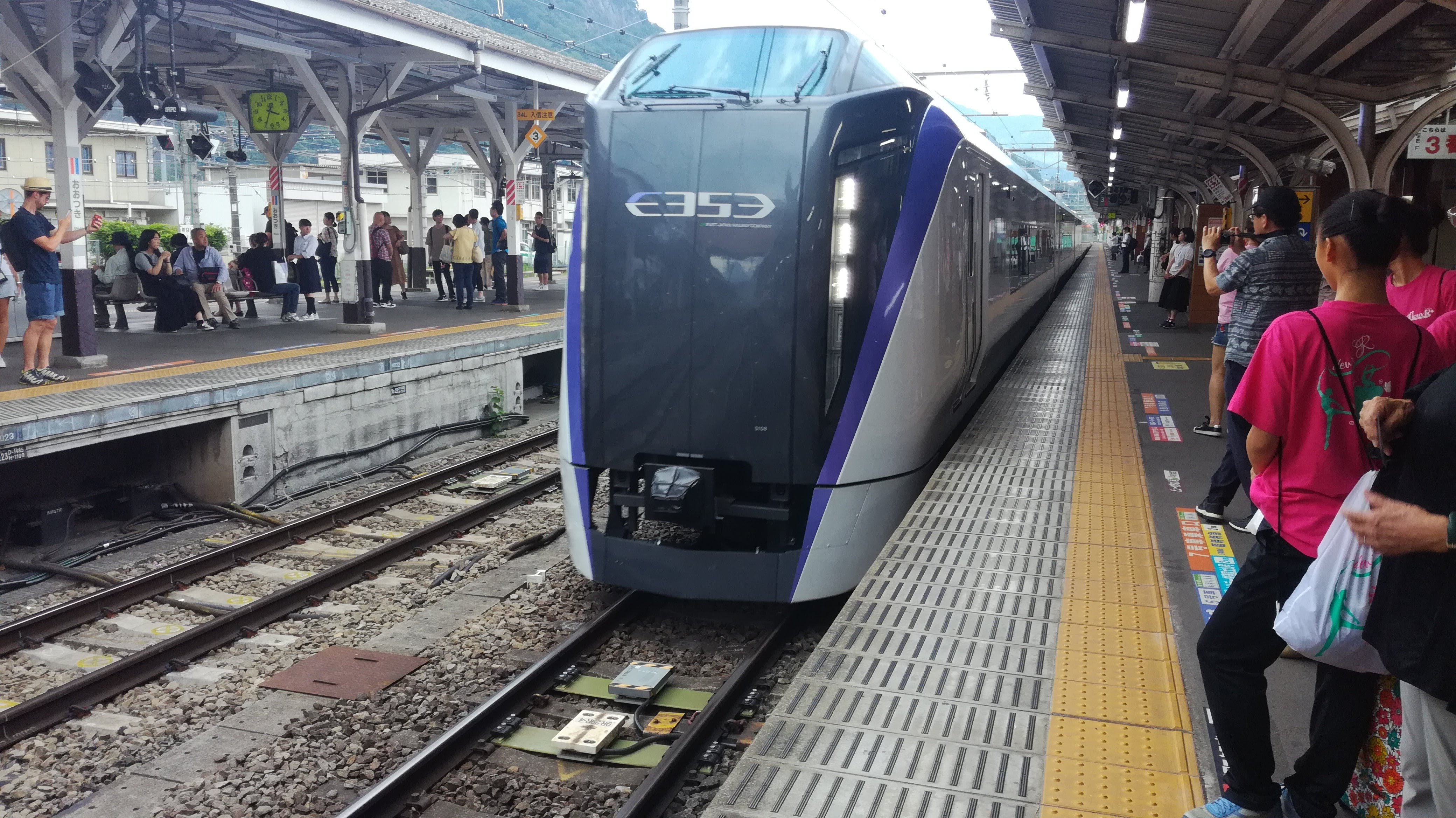 E353 series train